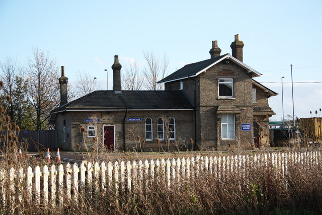 Algakirk and Sutterton Station